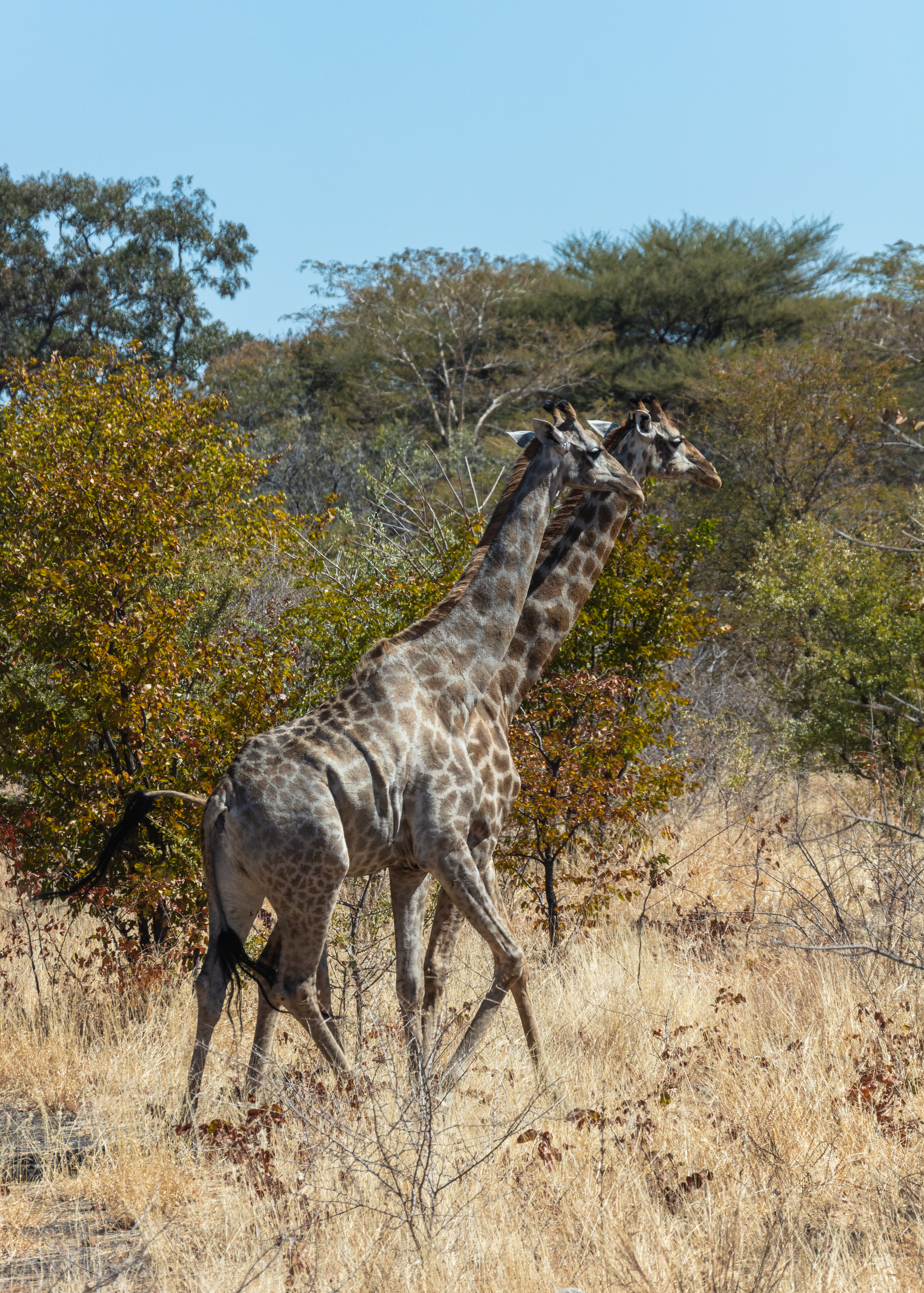 Northern giraffes (Giraffa camelopardalis), Chobe National Park, Botswana